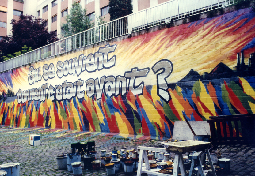 qui se souvient